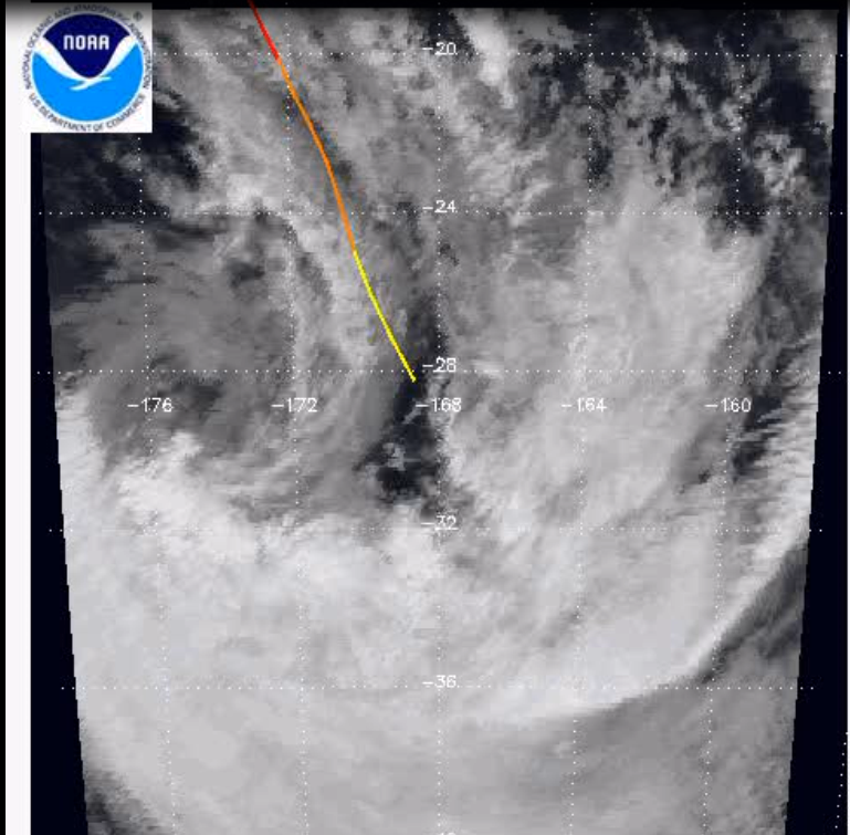 Cyclone Susan absorbing Cyclone Ron